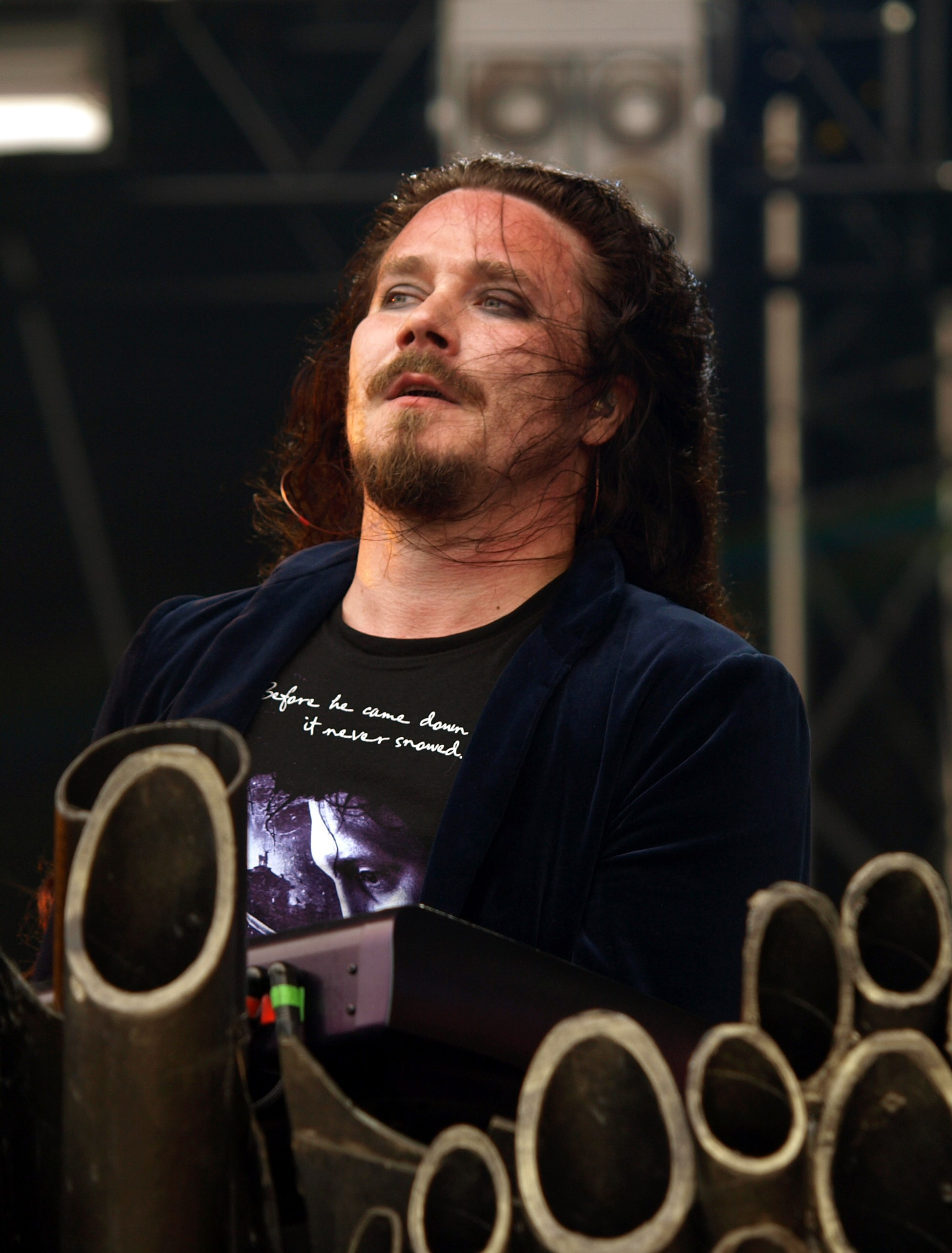 Finnish band Nightwish at Tuska Open Air 2013